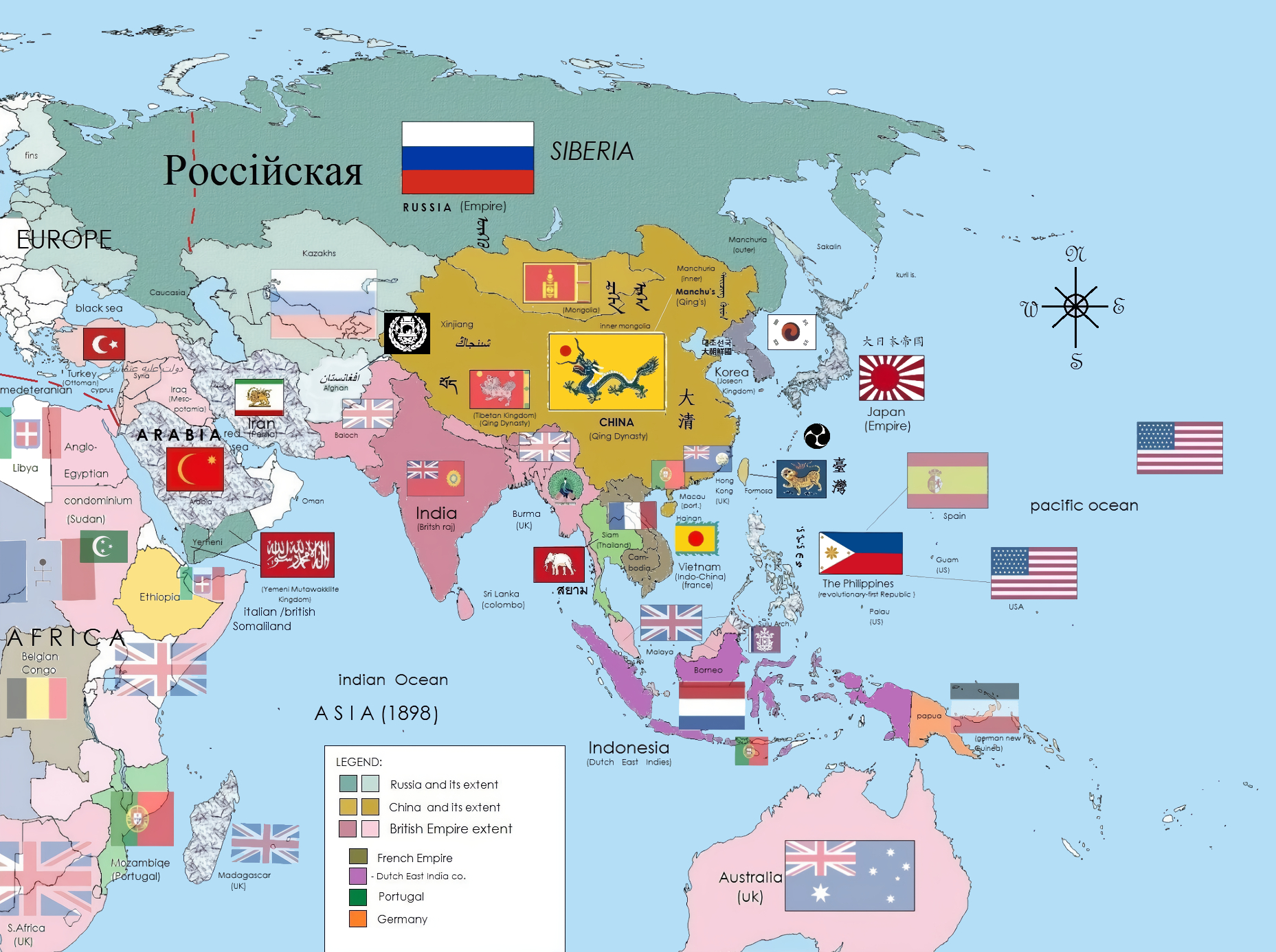 The map of Asia shows the Western power possessions and changes of political situations on Asia in the end of 19th century and early 20th century AD.